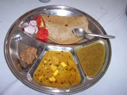 SIKH FOOD PLATE AT LANGAR IN SIKH TEMPLE.